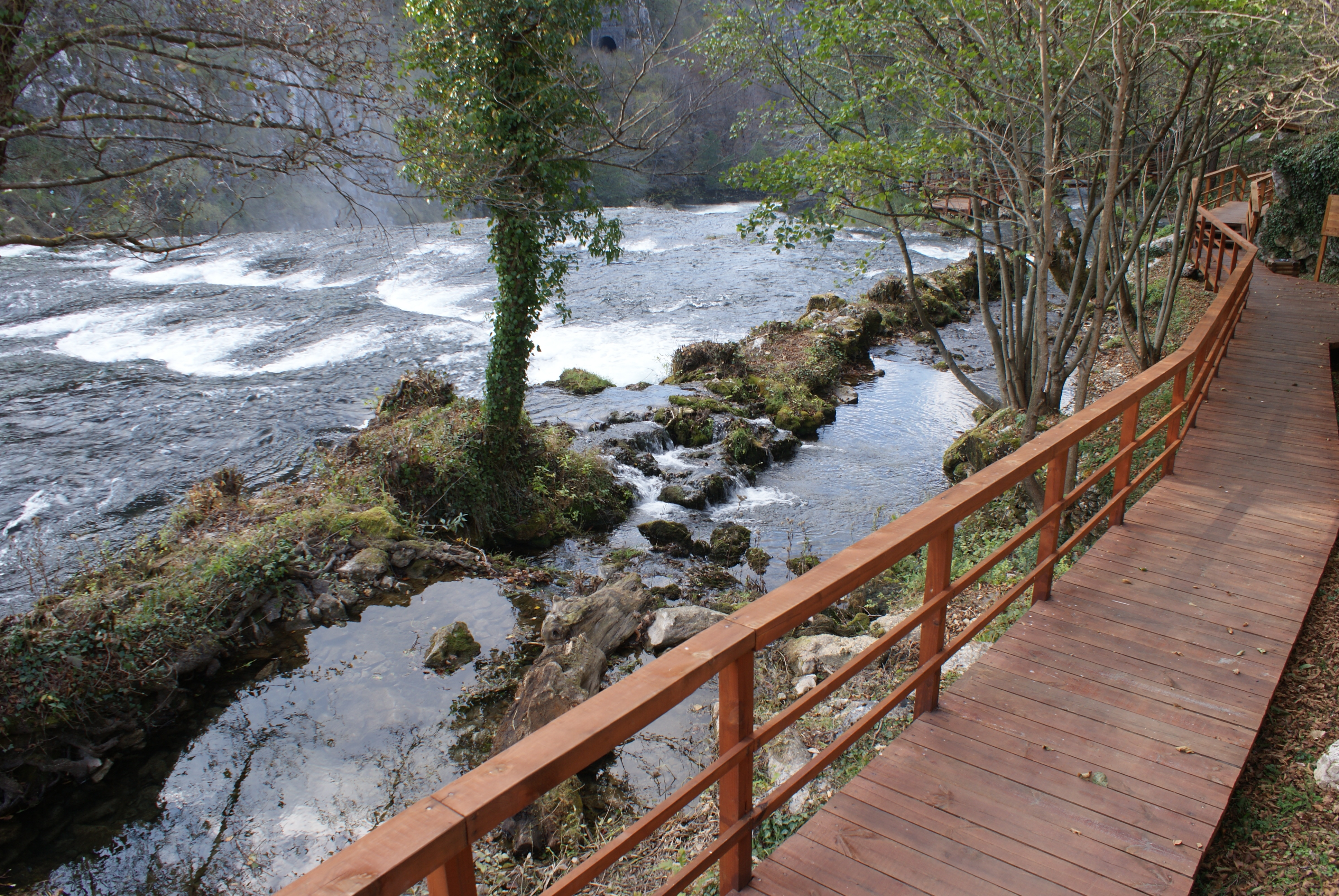 ŠETNICA ŠTRBAČKI BUK